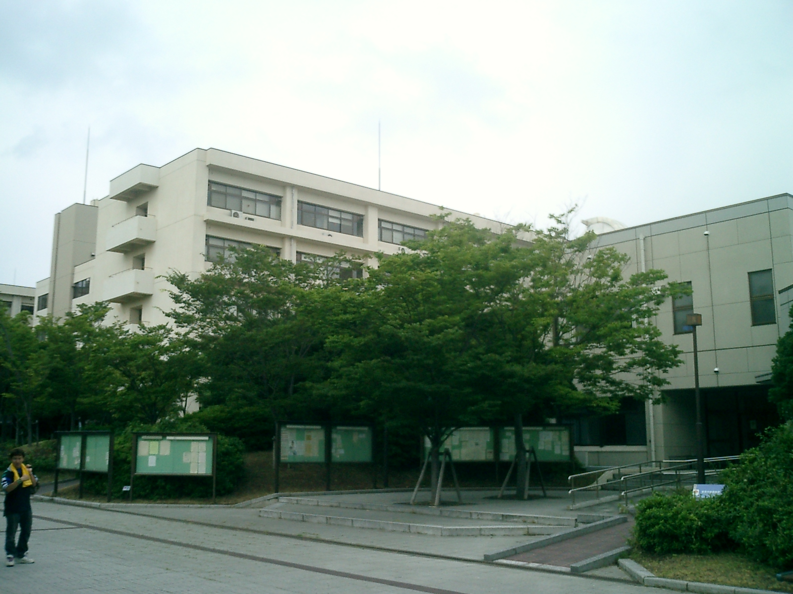 Education of Wakayama University, JAPAN